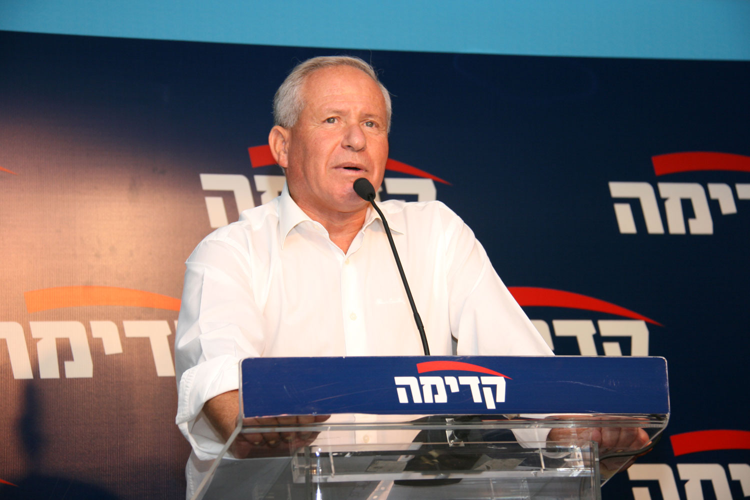 MK Avi Dichter, Member of Kadima Party (Israel). Photo by: Itzik Edri, Kadima Party PR Team